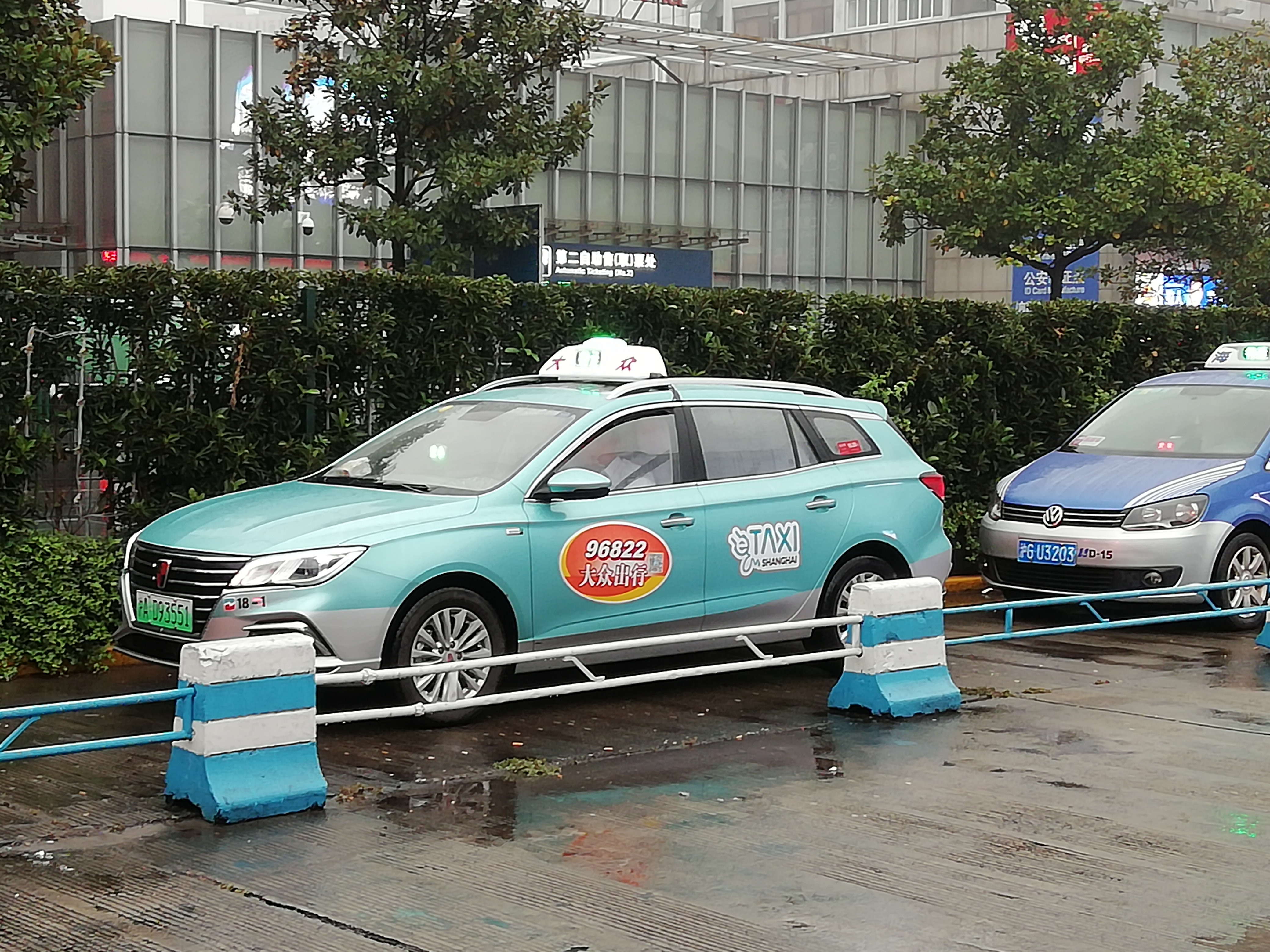 A Roewe EI5 Taxi, taken in Shanghai Railway Station. 中文（中国大陆）: 一辆上汽荣威EI5电动出租车，摄于上海火车站。